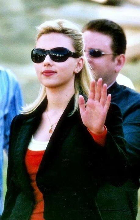 Scarlett Johansson at the Cannes Film Festival